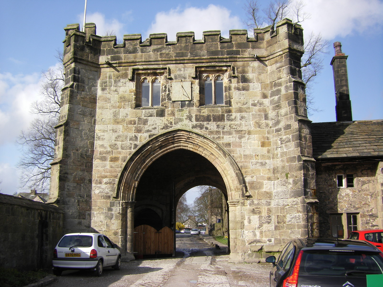 Gatehouse of Whalley Abbey, Whalley, Lancashire, England